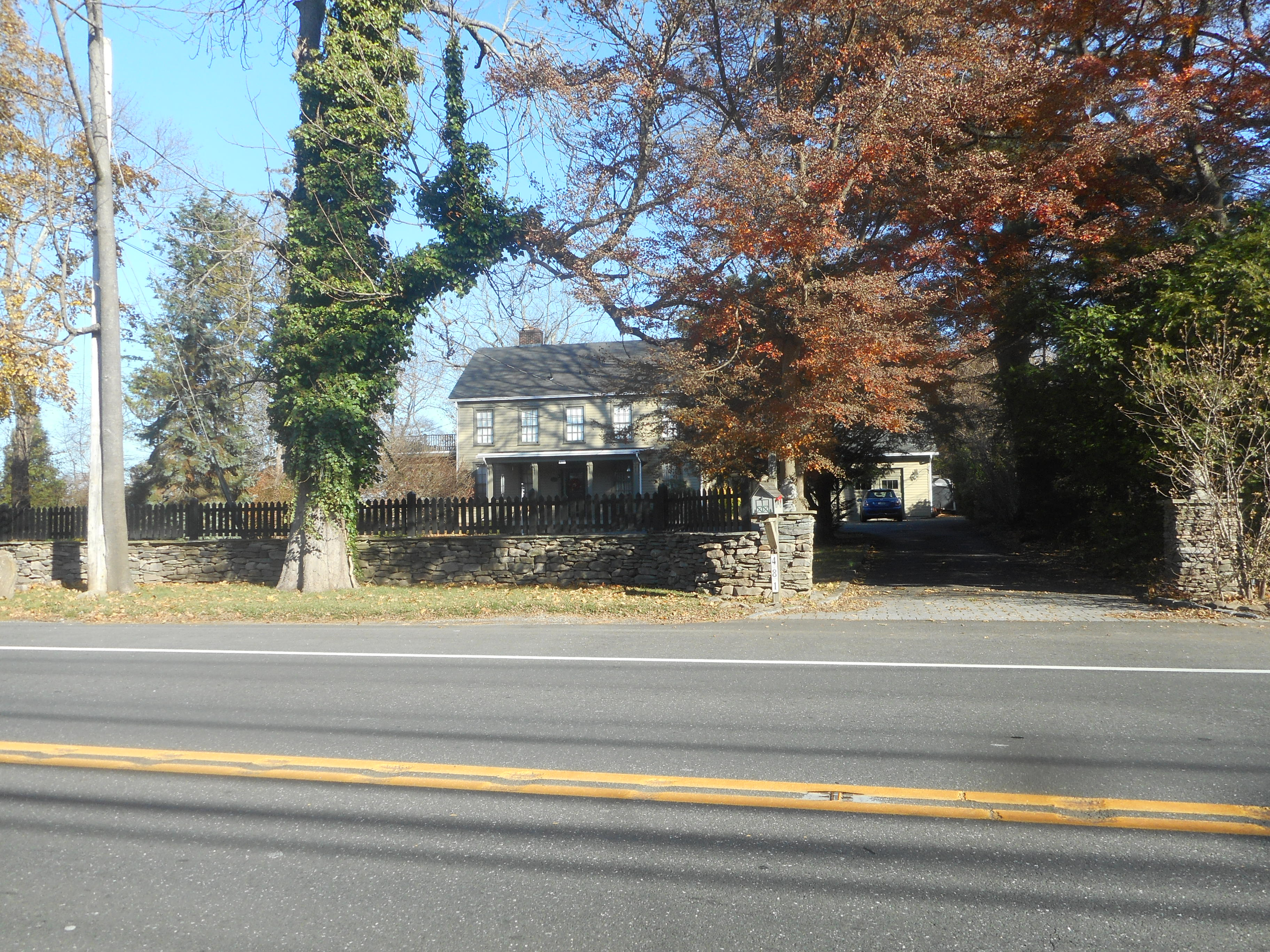 The Harry Wood House, an NRHP listed house at 481 West Main Street (New York State Route 25A) in western Huntington, New York. Admittedly, I don't remember whether I had to get out of my car to take this shot or not.